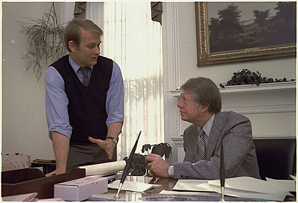 Press Secretary Jody Powell and President Jimmy Carter, 02/10/1977. ARC Identifier: 173639. Retrieved following the instructions at